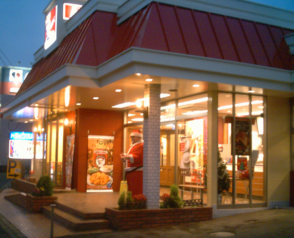 Kentucky Fried Chicken_Fast food restaurants Japan photography day, 2006.11.28. photography person kici